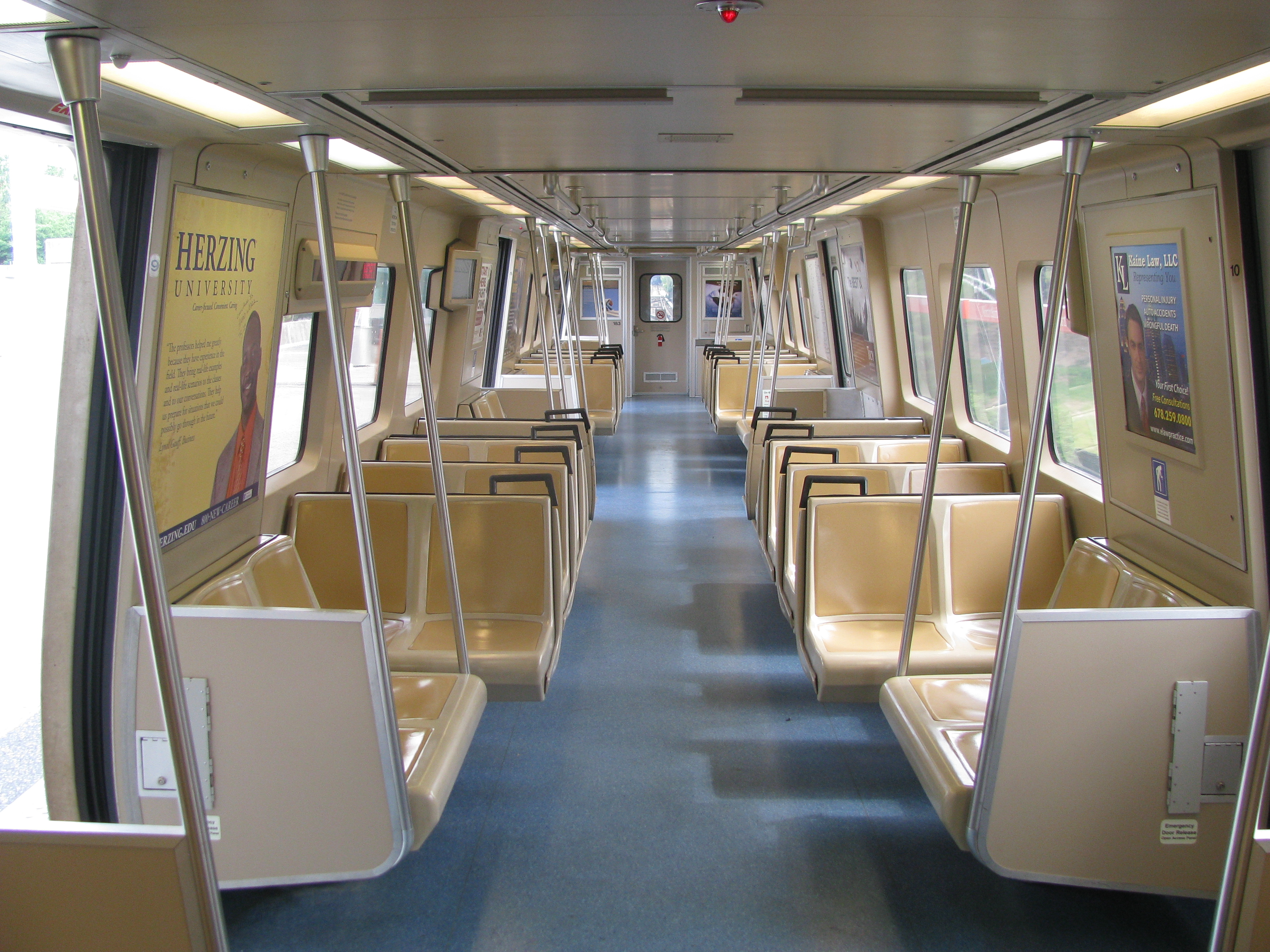 Its empty in there!